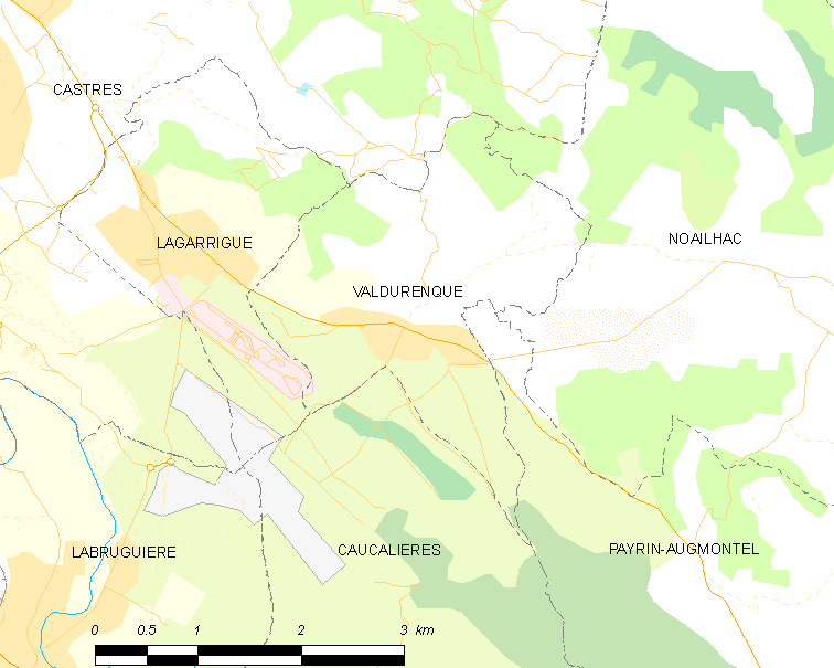 Map commune FR insee code 81307.png - Valdurenque